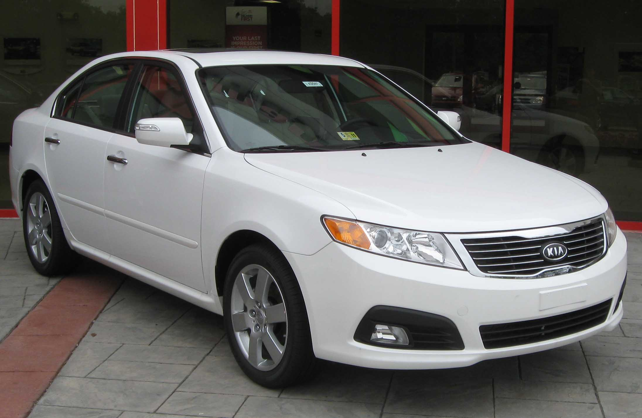 2010 Kia Optima photographed in Chantilly, Virginia, USA.